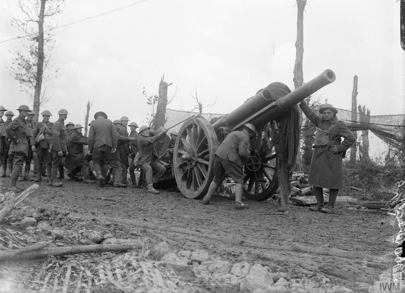 IWM caption : THE BATTLE OF PASSCHENDAELE, JULY-NOVEMBER 1917. A 60 pounder Mark I being taken out of its emplacement to move it forward. Royal Garrison Artillery (R.G.A.) at Wieltje, 5th September 1917. Other photographs in this sequence : File:60-pounder gun at Wieltje Sep 1917 IWM Q 3019.jpg